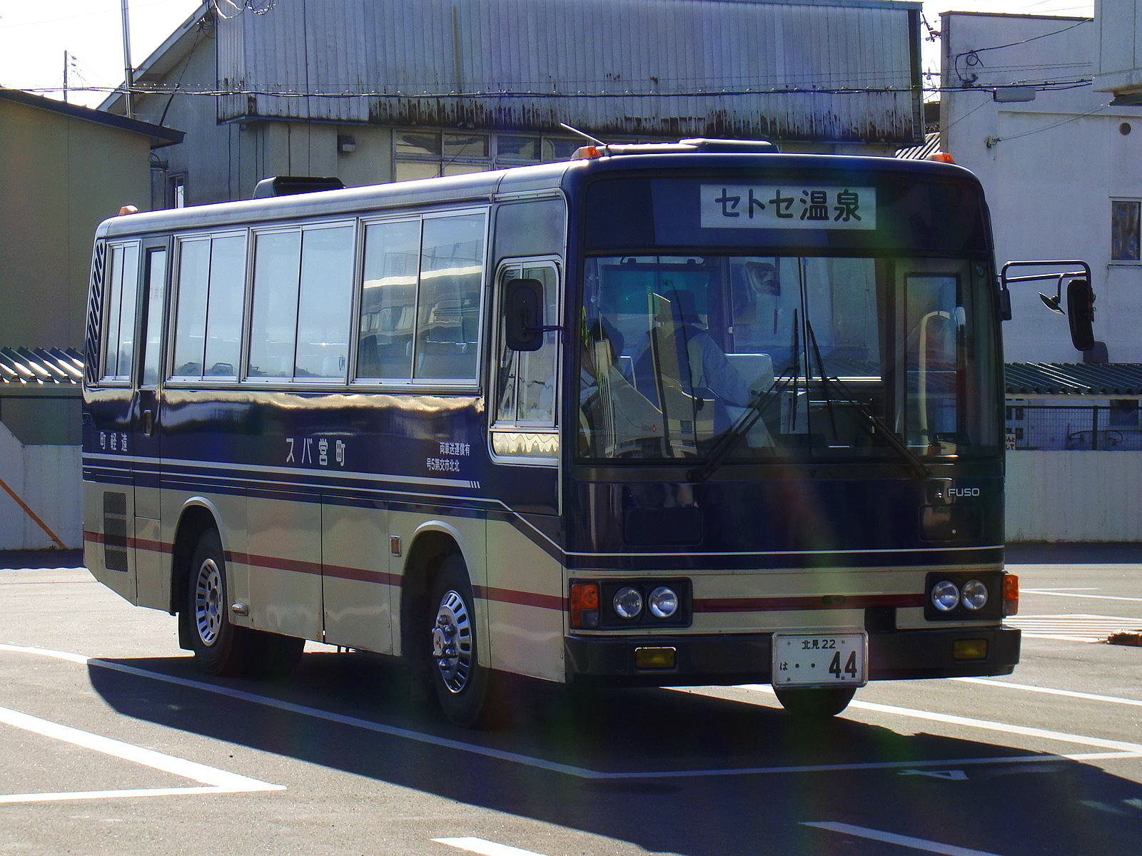 Engaru town line